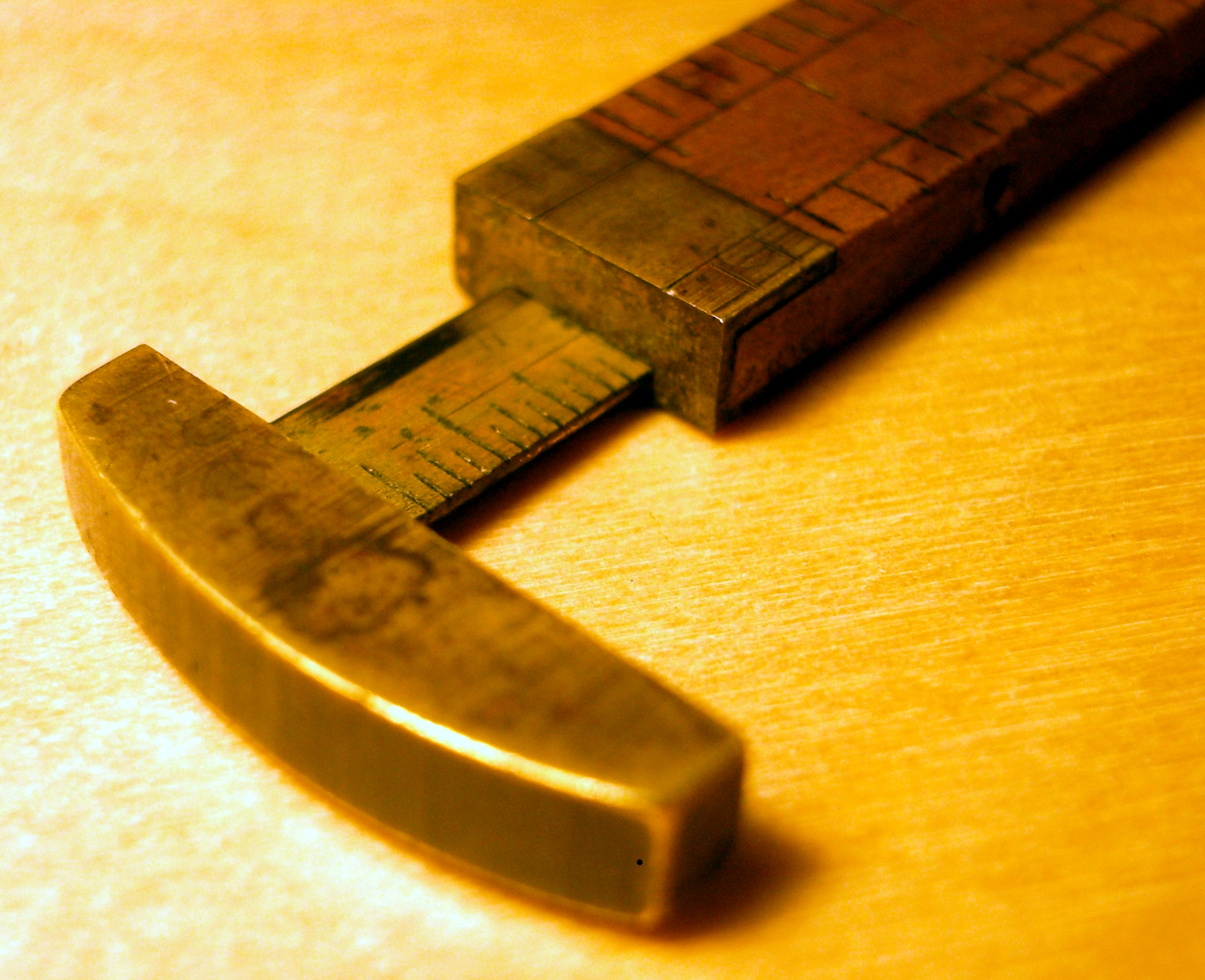 T-square, flip-side - Depicts a t-square.